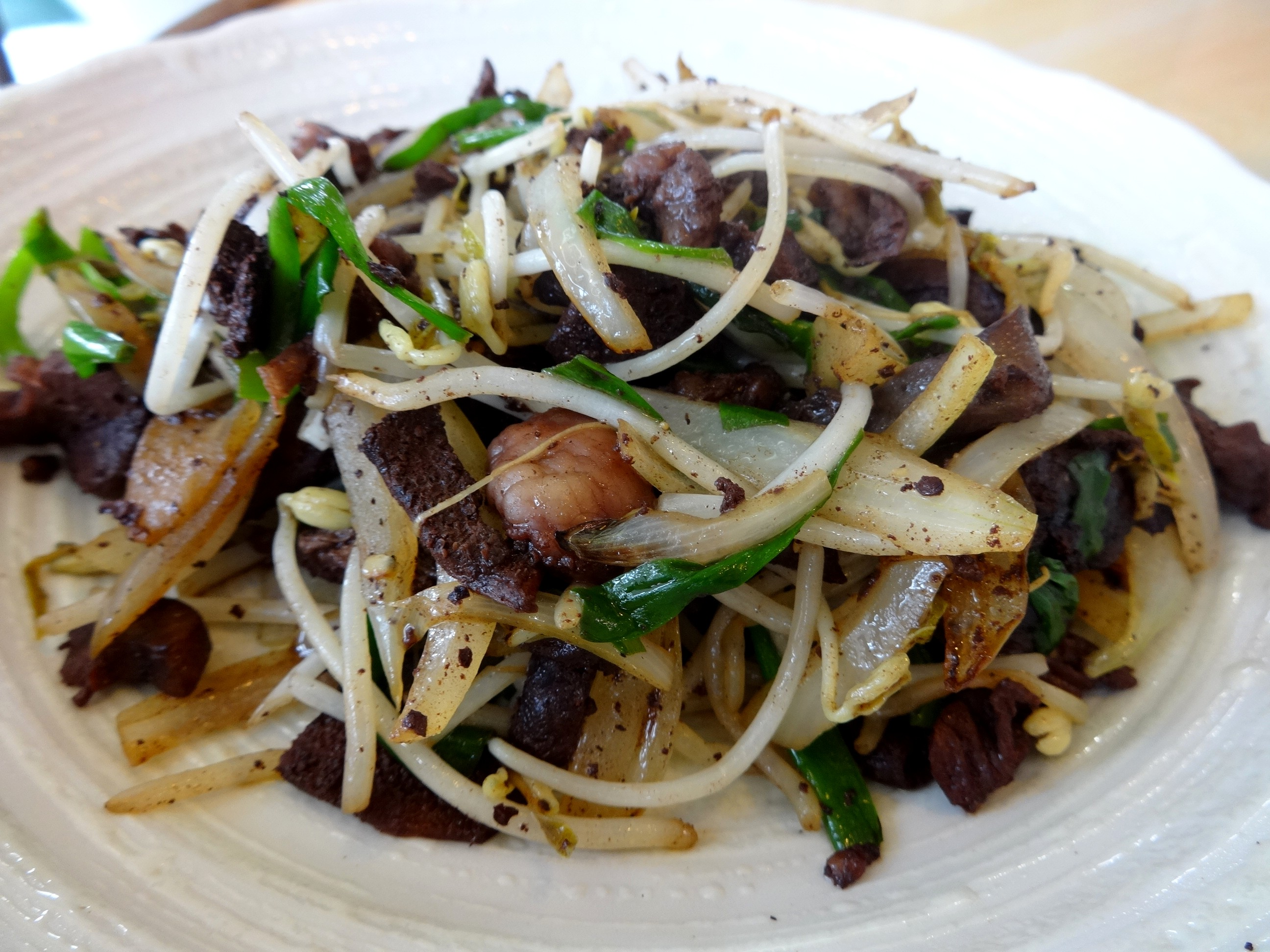 Karajuuri or fried goat meat, liver, blood with vegetables in Kikaijima, Kagoshima Prefecture, Japan